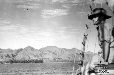 Goodenough Island, New Guinea. November 1942. The schooner "Maclaren King" which acts as a ferry between New Guinea and the island approaching the mission station at Dogura. Note the mountainous country on the island.